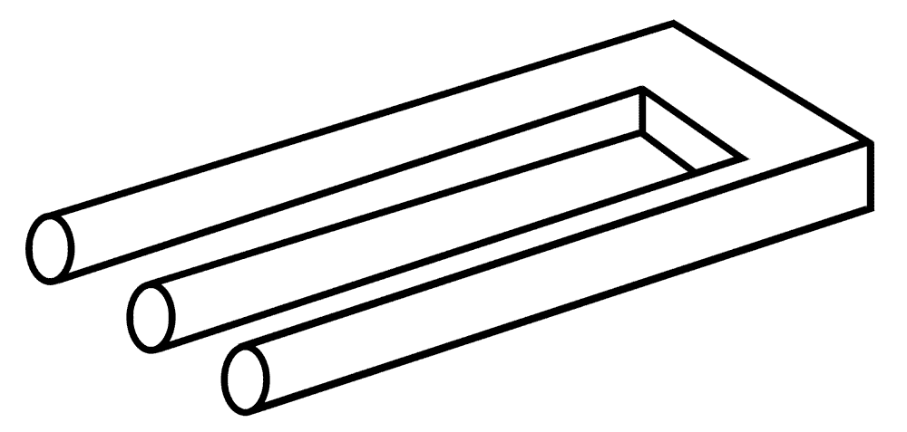 This figure is the simplified outline of a drawing by Roger Hayward from an article on "Blivets: Research and Development" published in The Worm Runner's Digest (December en:1968) and reproduced in Martin Gardner's Mathematical Circus (Pelican Books en:1981, ISBN 0 14 02.2355 X). Hayward's version shows a stone monument with its two (or is it three?) legs standing in a lake, thereby concealing the details of the bottom of the legs which would otherwise have committed him to deciding on their number. Specific drawings such as Hayward's are copyrighted, but the simplified outline in blivet.png has been repeated in so many places that it can be considered public property. Licensing for this particular rendition